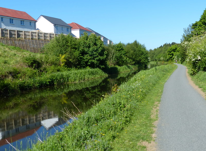 New houses next to the Union Canal